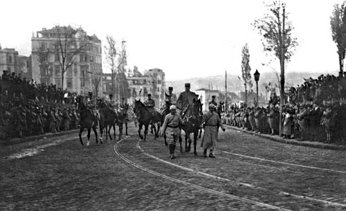 Franchet d'Espere marching in Beyoğlu, February 8, 1919